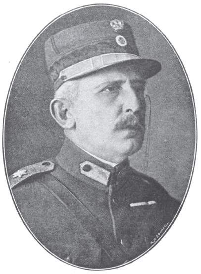 Army general, minister and Olympic bronze medalist Periklis Pierrakos-Mavromichalis